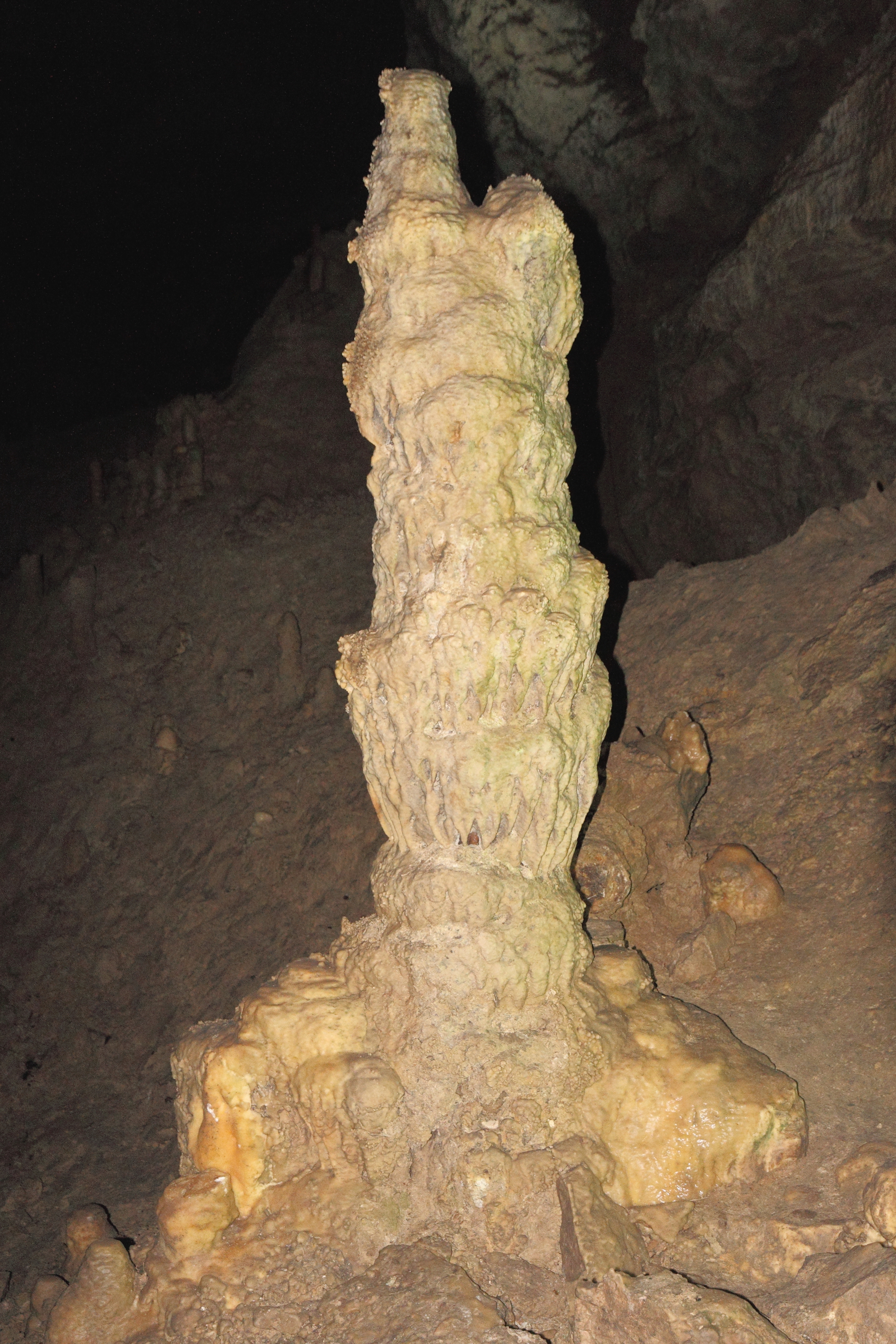 Stalagmites. New Athos Cave. New Athos, Gudauta District, Abkhazia.